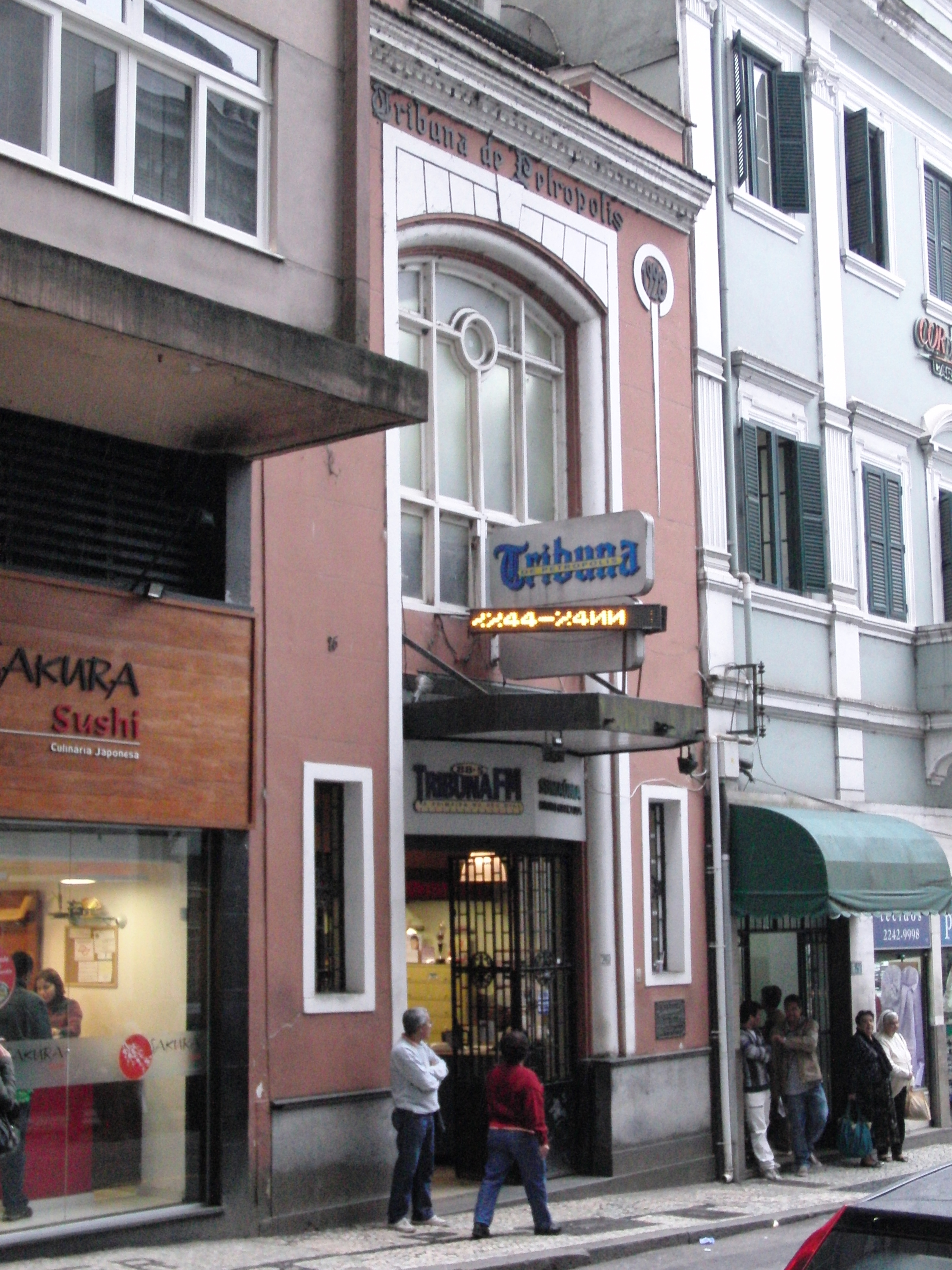 Tribuna de Petrópolis - PU1JFC ™ ©